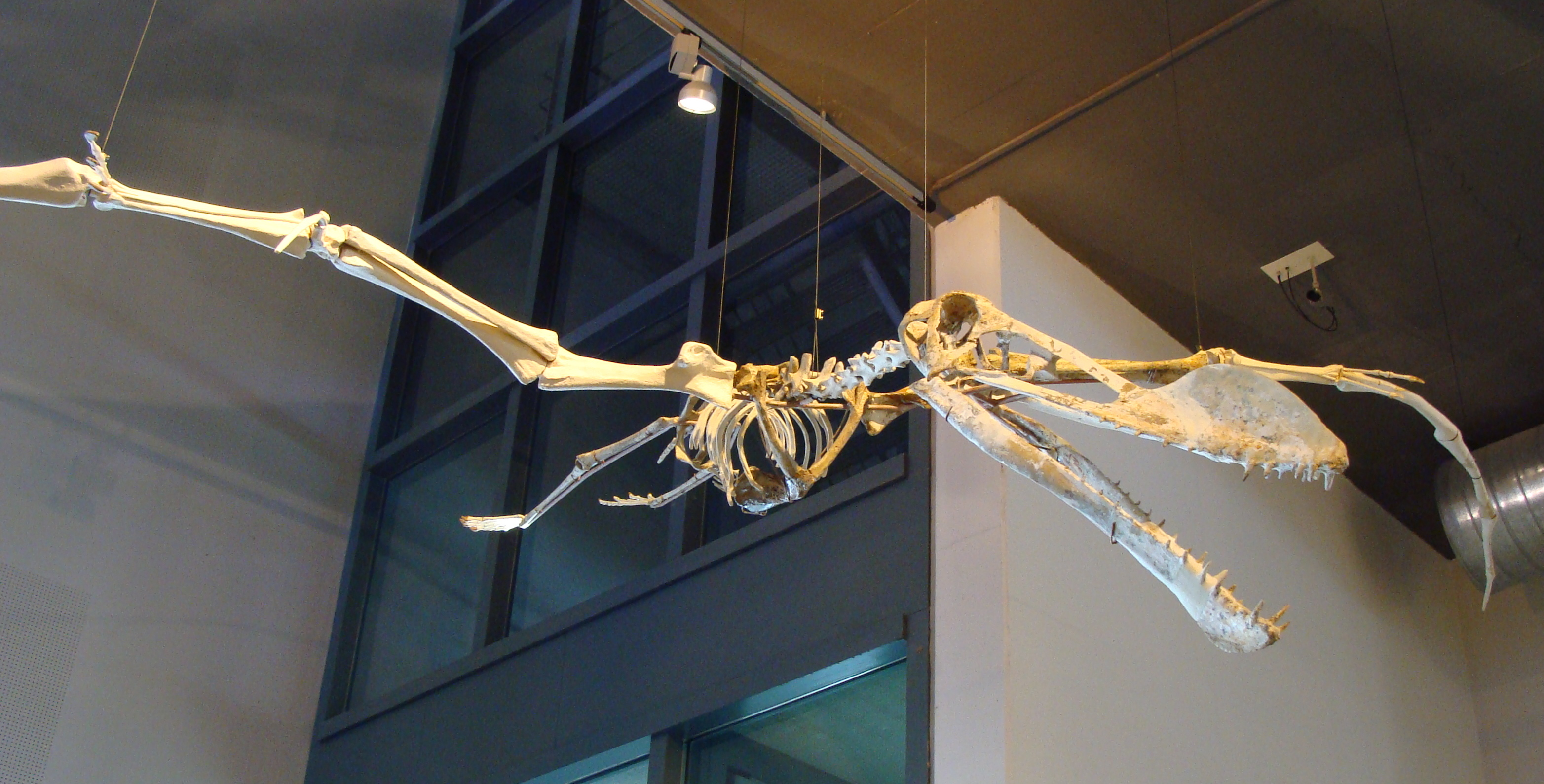 Coloborhynchus spielbergi in Naturalis, Leiden.